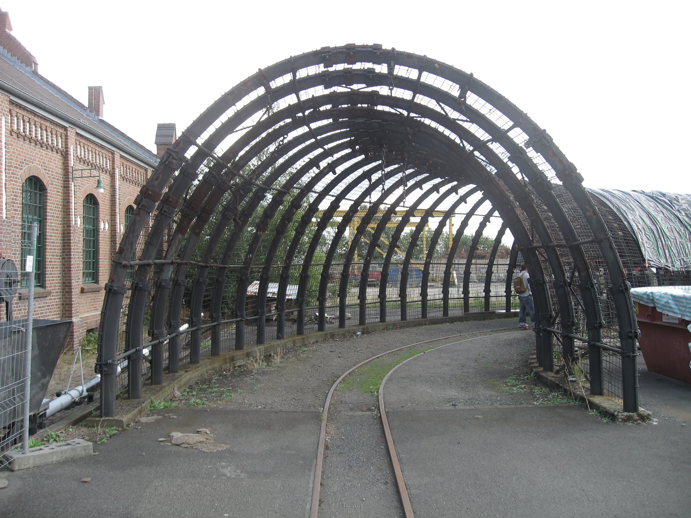 coal-mine "Zollern II/IV" in Dortmund - Google Maps - Google Earth